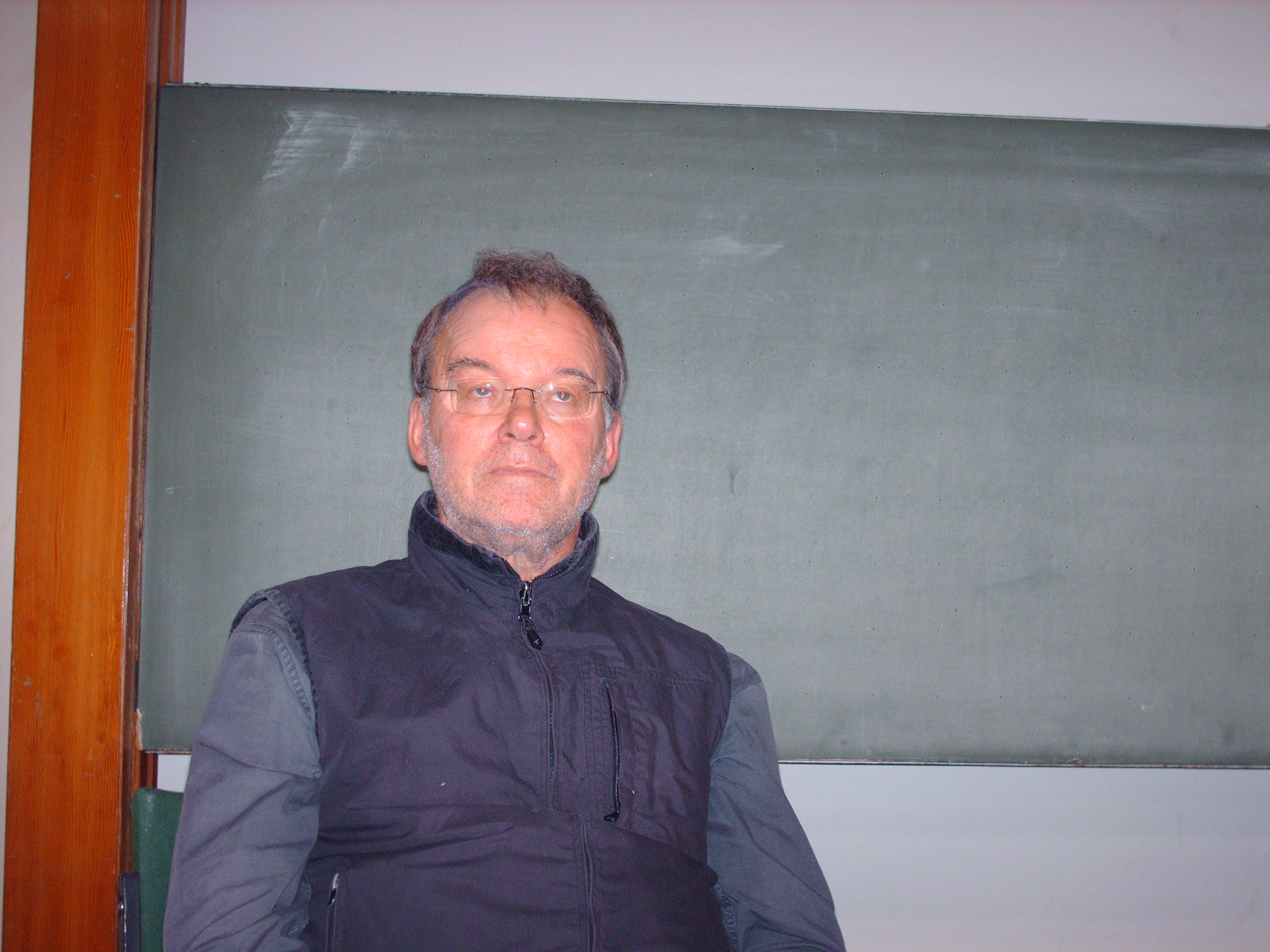 Helmut Dubiel check usage